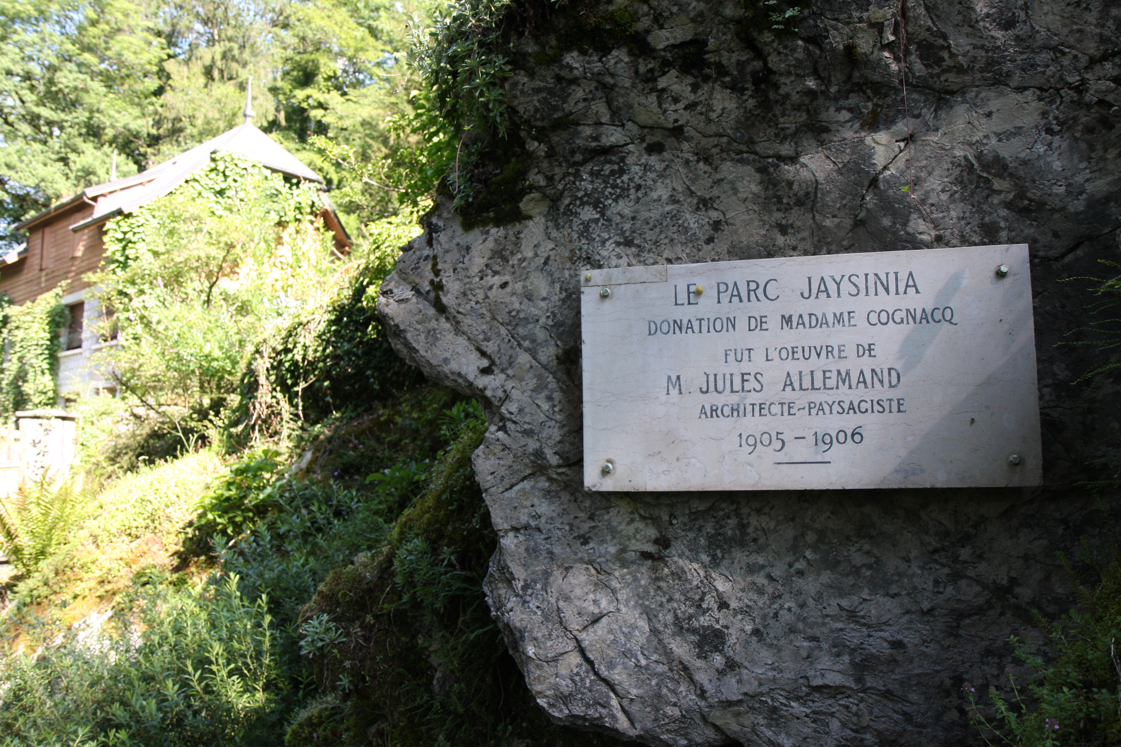 Alpine botanical garden La Jaÿsinia - Explanatory panel